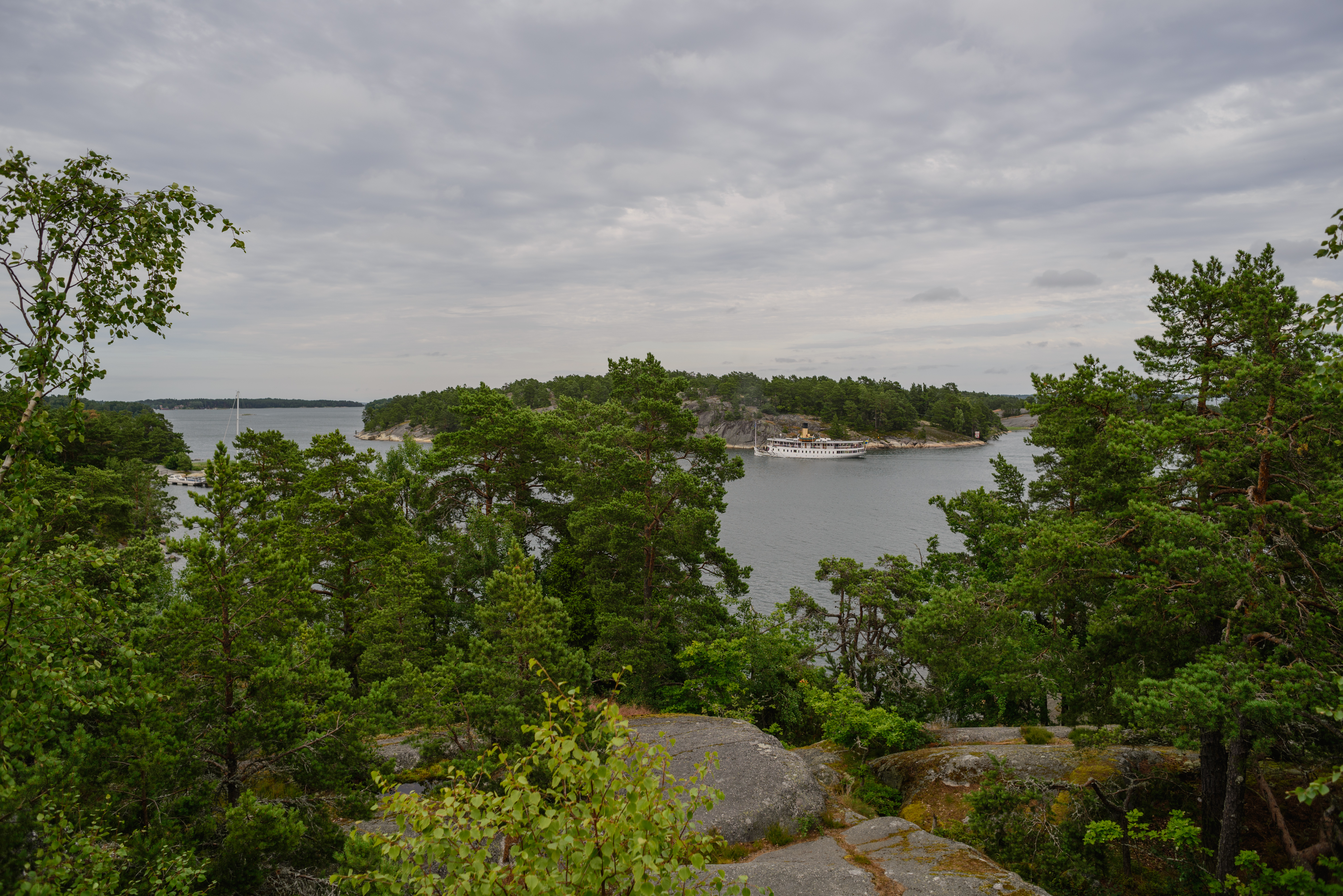 North view from Finnhamn.